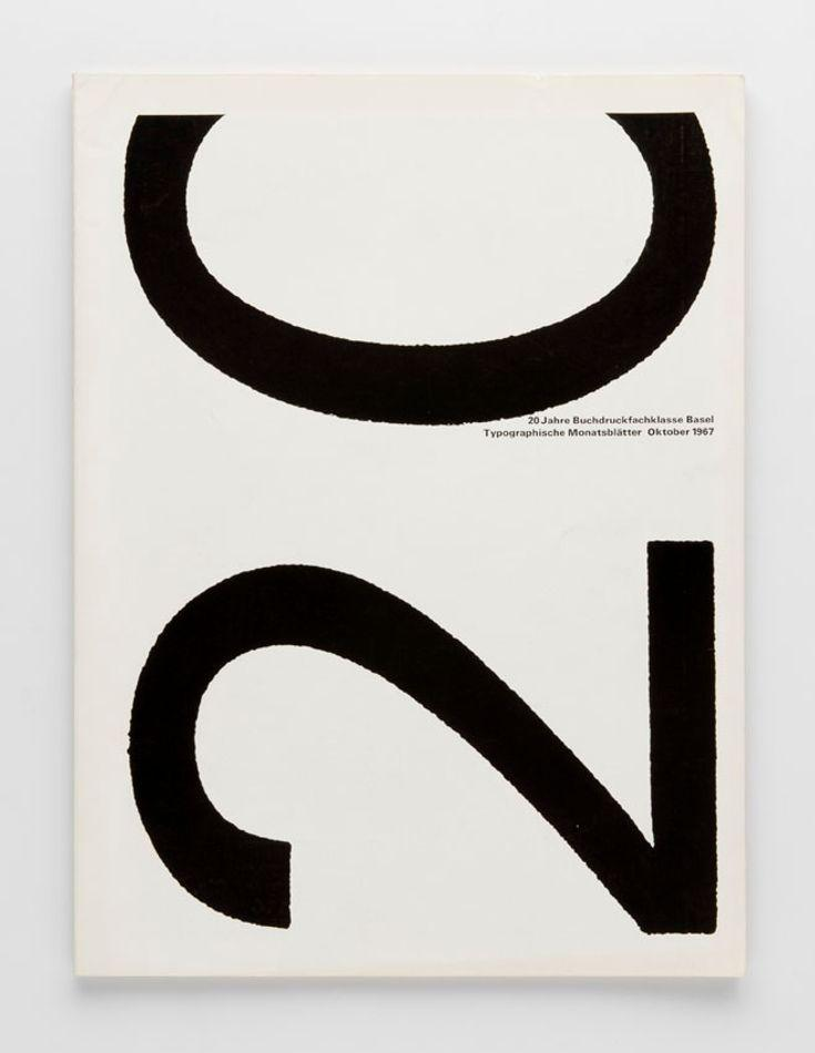 Cover of the periodical "Typographische Monatsblätter", issue 10/1967 (October 1967). Cover design by Emil Ruder. Special issue for the 20 years of "Buchdruckfachklasse Basel" (special class for book printing, at School of Design Basle).